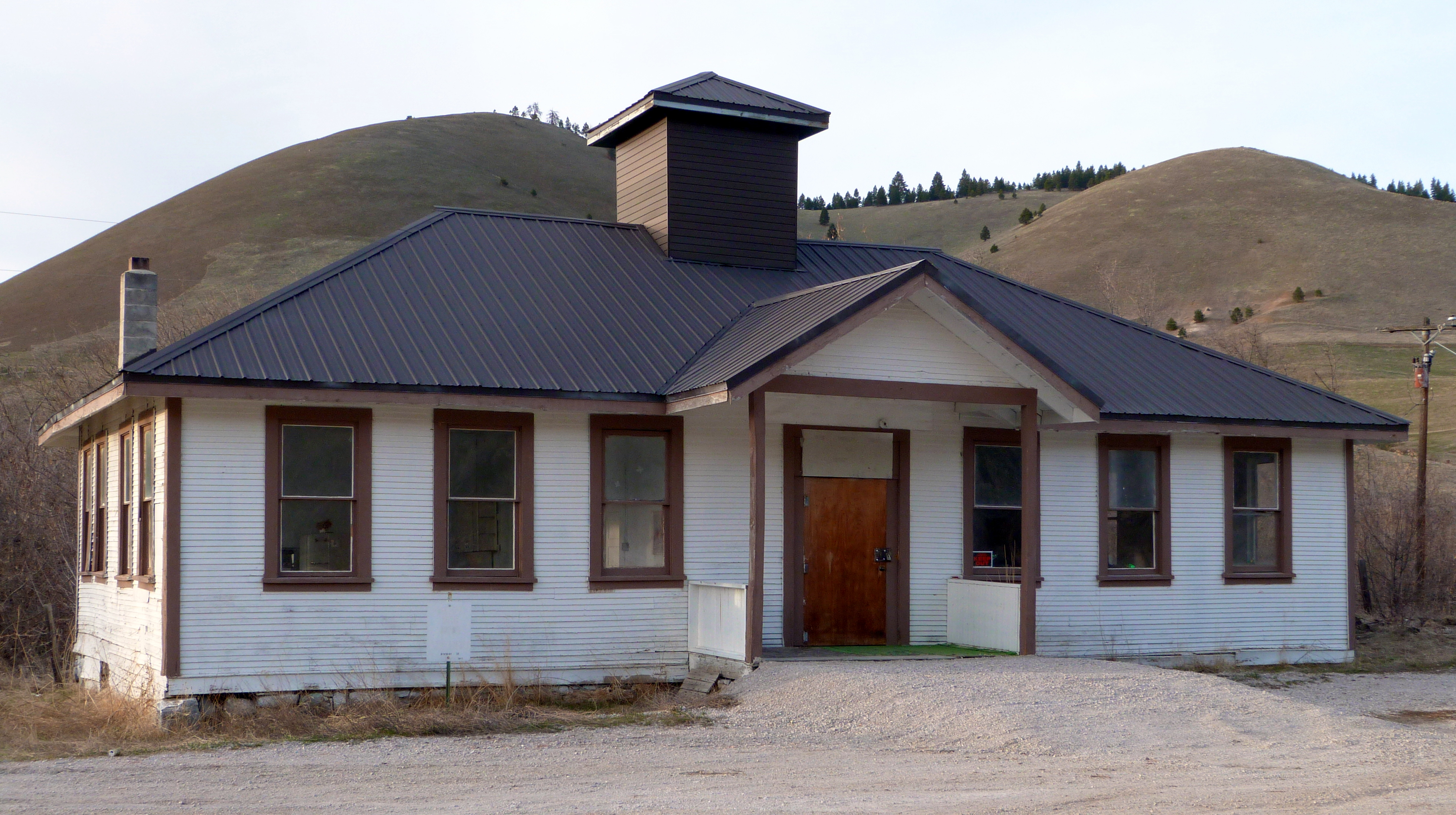 The historic Upper Brownlee School (built 1911), located on Dry Buck Road near Sweet, Idaho, United States, is listed on the US National Register of Historic Places.